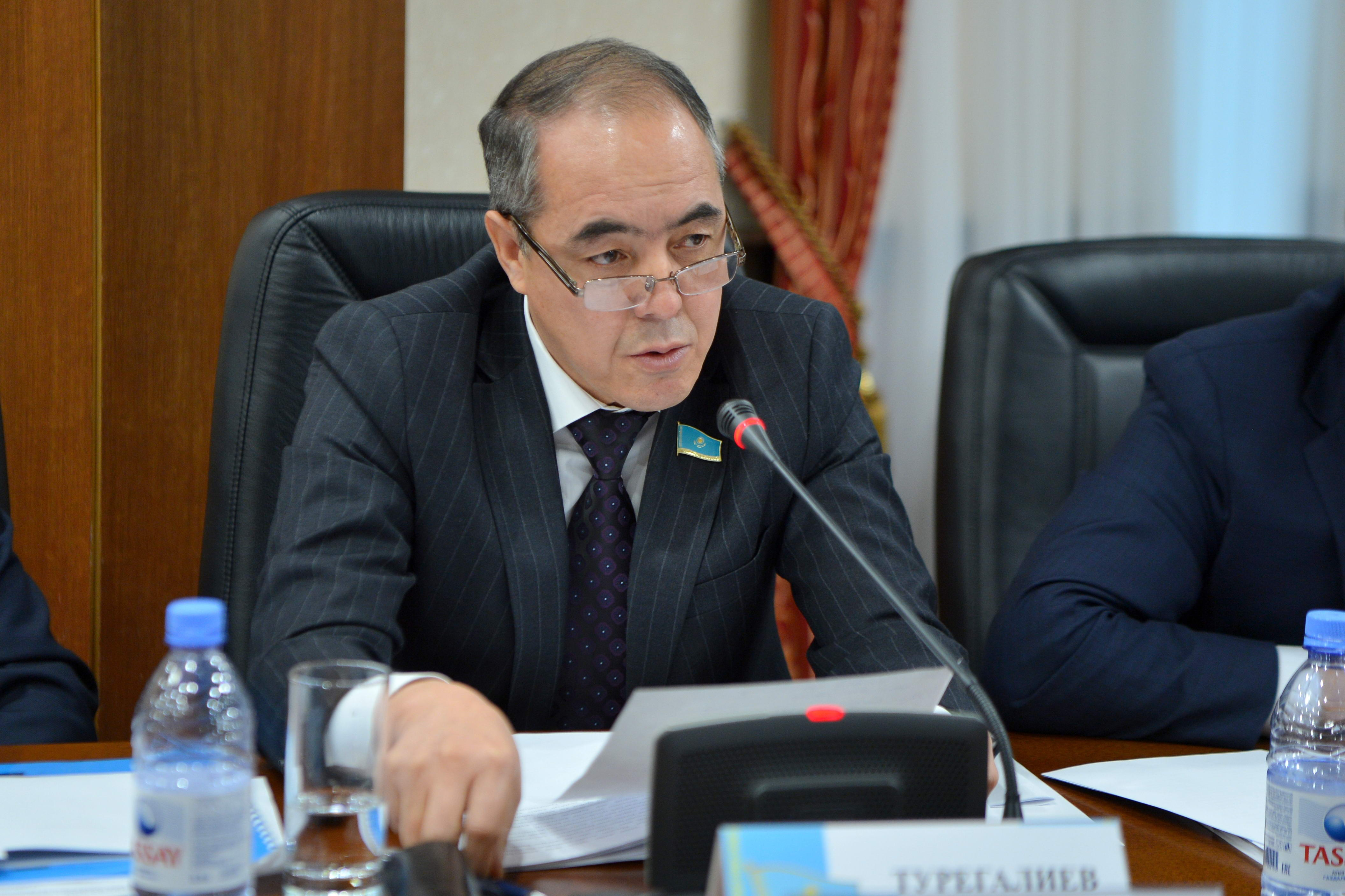 Nariman Turegaliyev